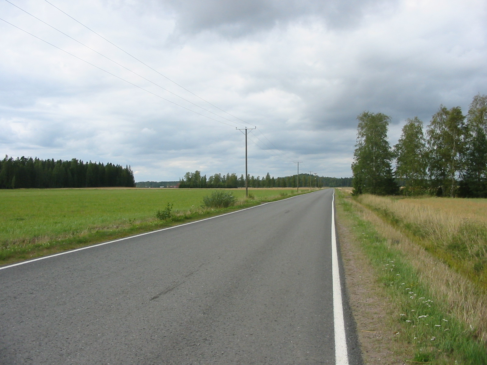 A roadside landscape in Isoniittu, Pitkäjärvi, Somero, Finland.